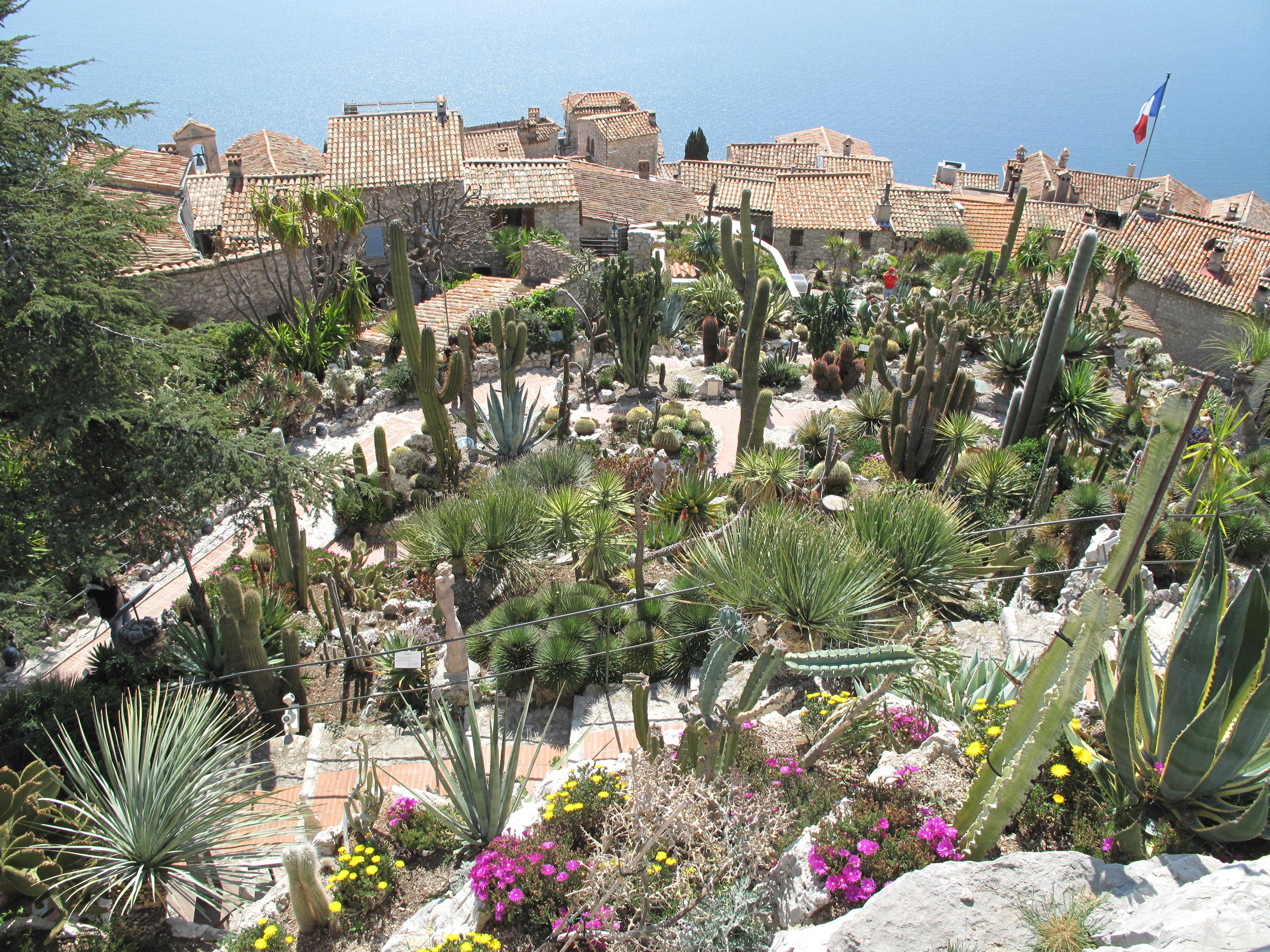 Overview of the botanical garden of Eze (Alpes-Maritimes, France).